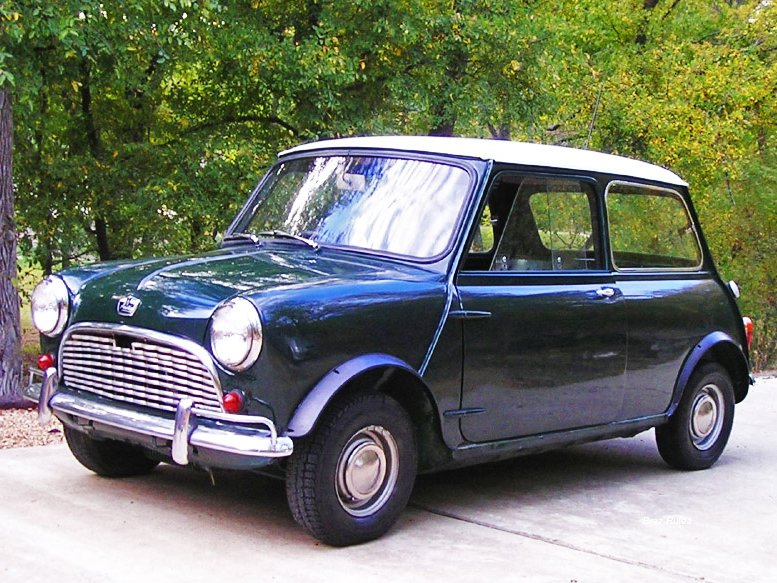 A 1963 Mk I Austin Mini Super-Deluxe. (Right Hand Drive) This vehicle was originally painted in Almond Green and later repainted in British Racing Green when it was imported into the USA for restoration. Aside from the black wheel flares, it appears to be stock. It is currently owned by Steve Baker and resides in Cedar Hill, Texas, USA.